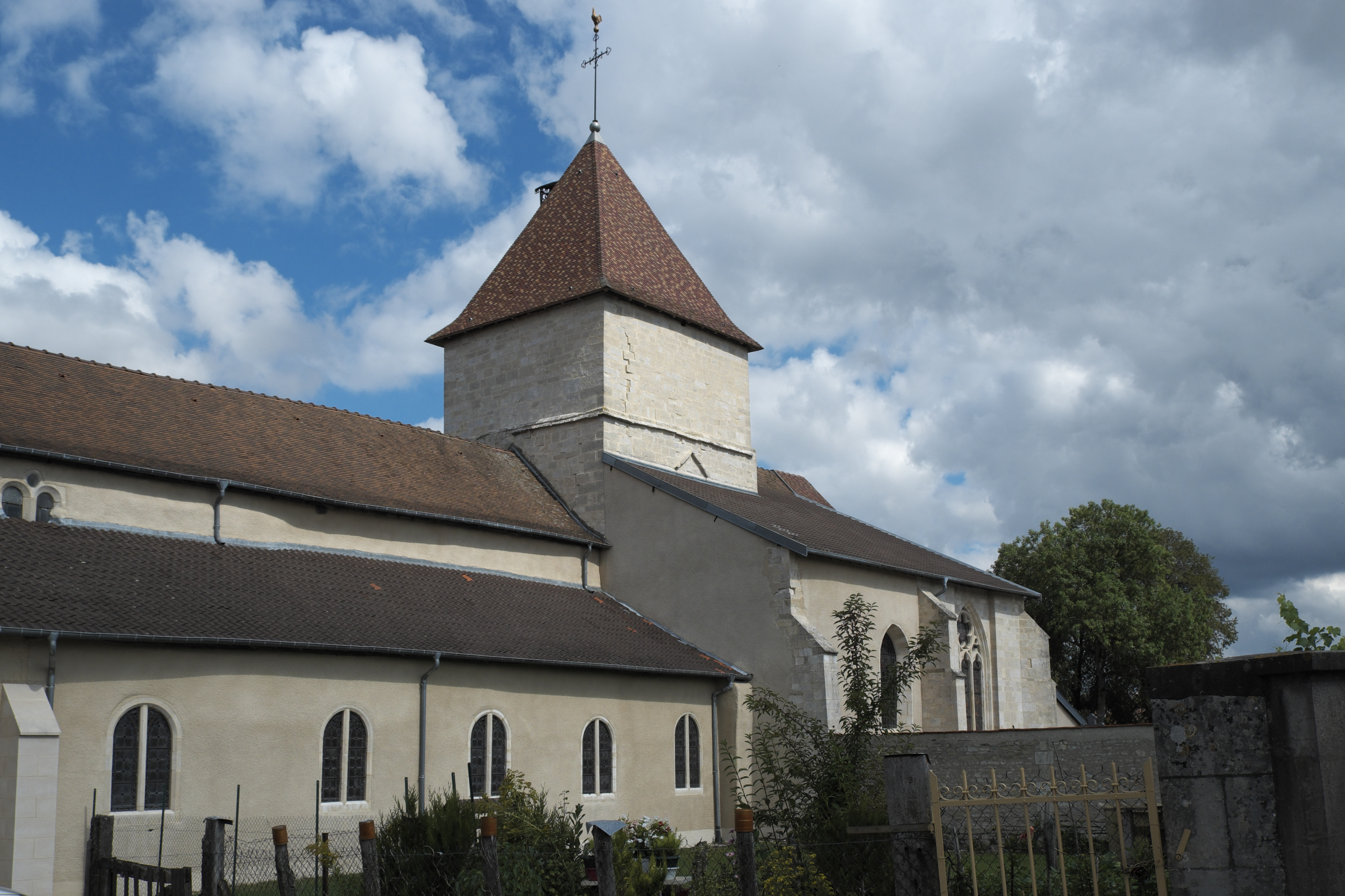 Église de la Nativité-de-la-Vierge, the church in Gondrecourt-le-Château in the Meuse département (Lorraine, France)